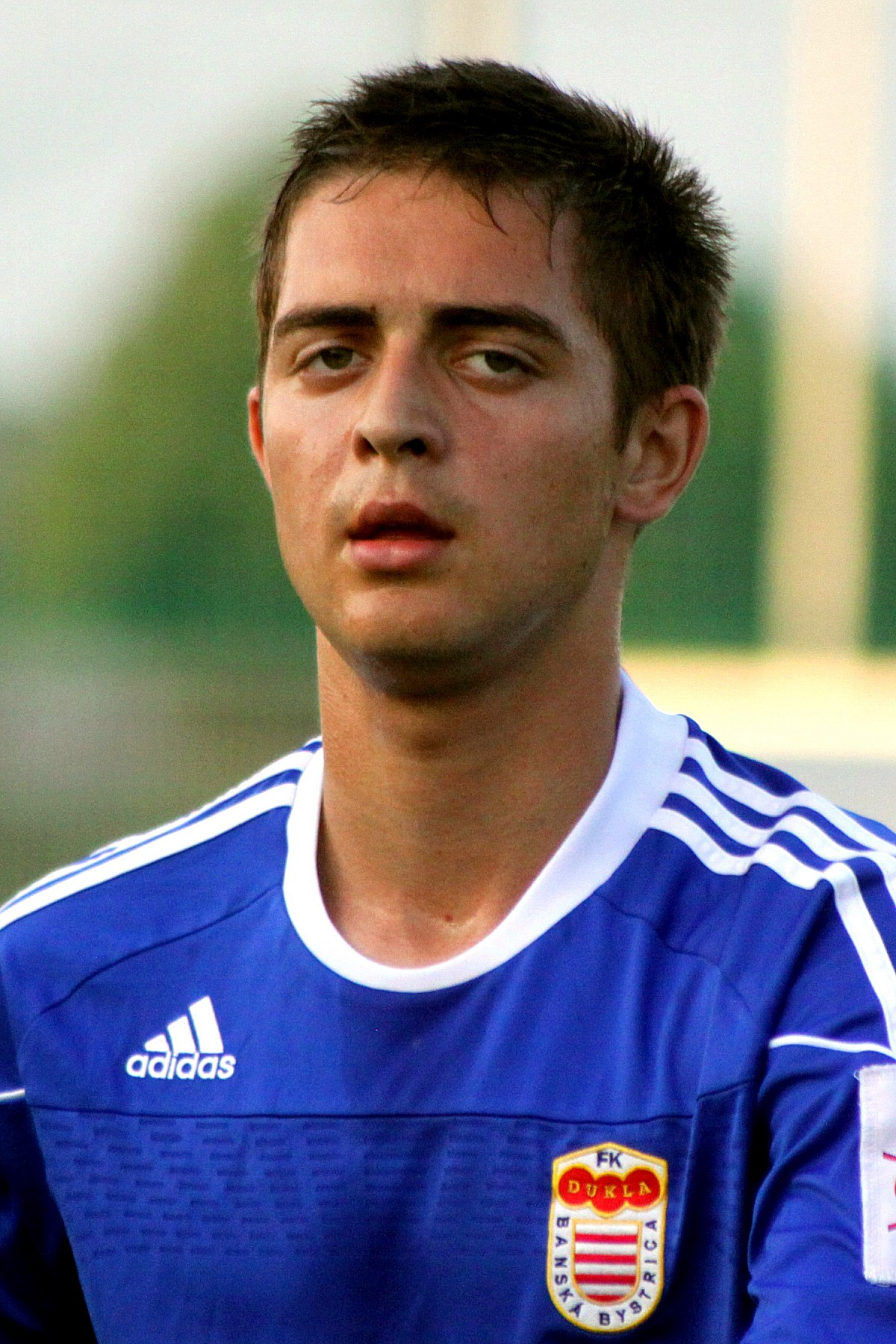 Friendly match SV Mattersburg vs FK Dukla Banská Bystrica (2:2) at 2013-06-21 in Mattersburg. – The photo shows Michal Faško (FK Dukla Banská Bystrica).